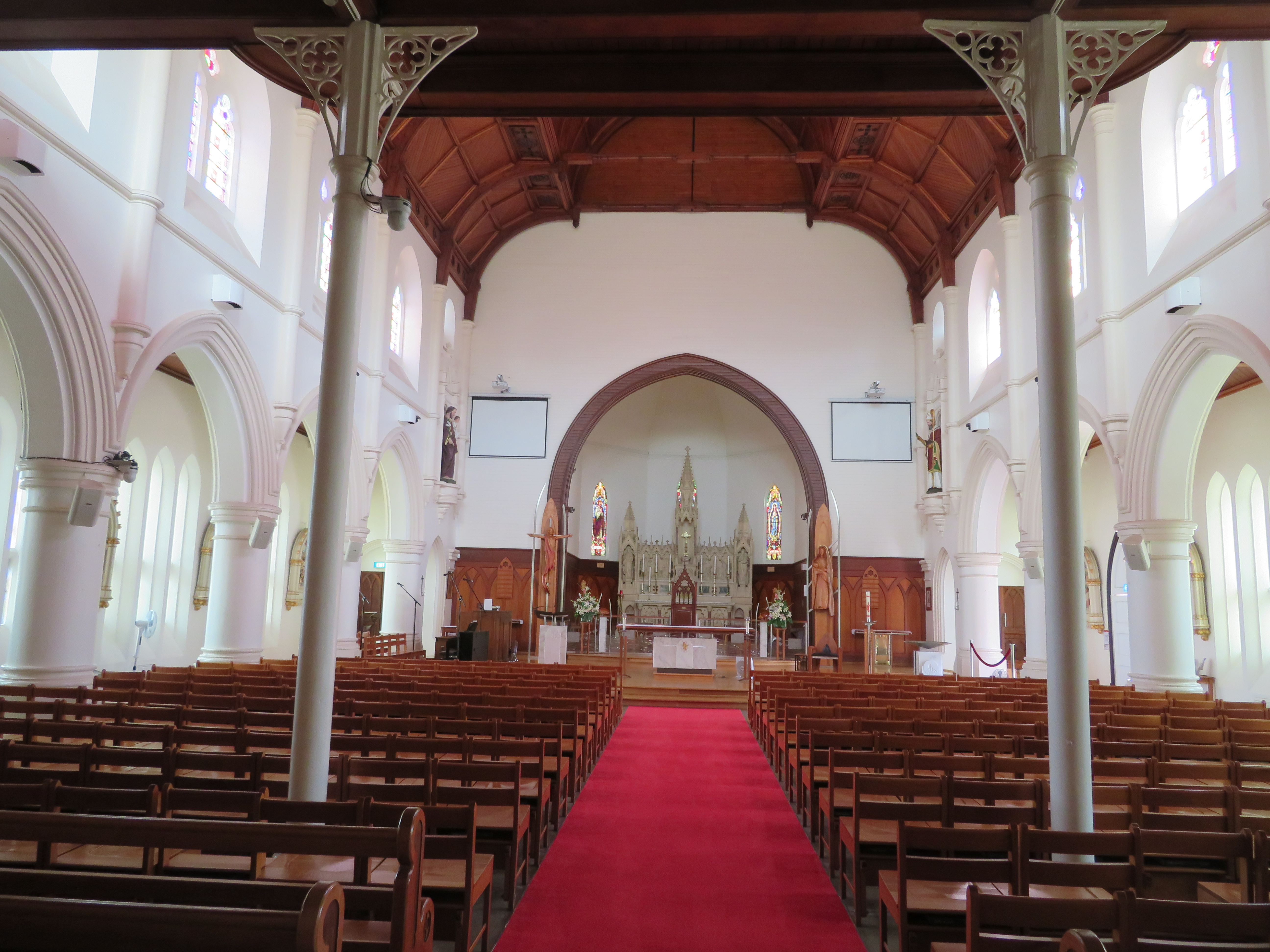 Sacred Heart Cathedral, Townsville, Queensland, Australia